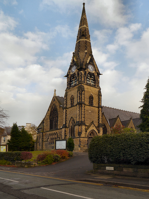 Photograph of Alderley Edge Methodist Church in Cheshire